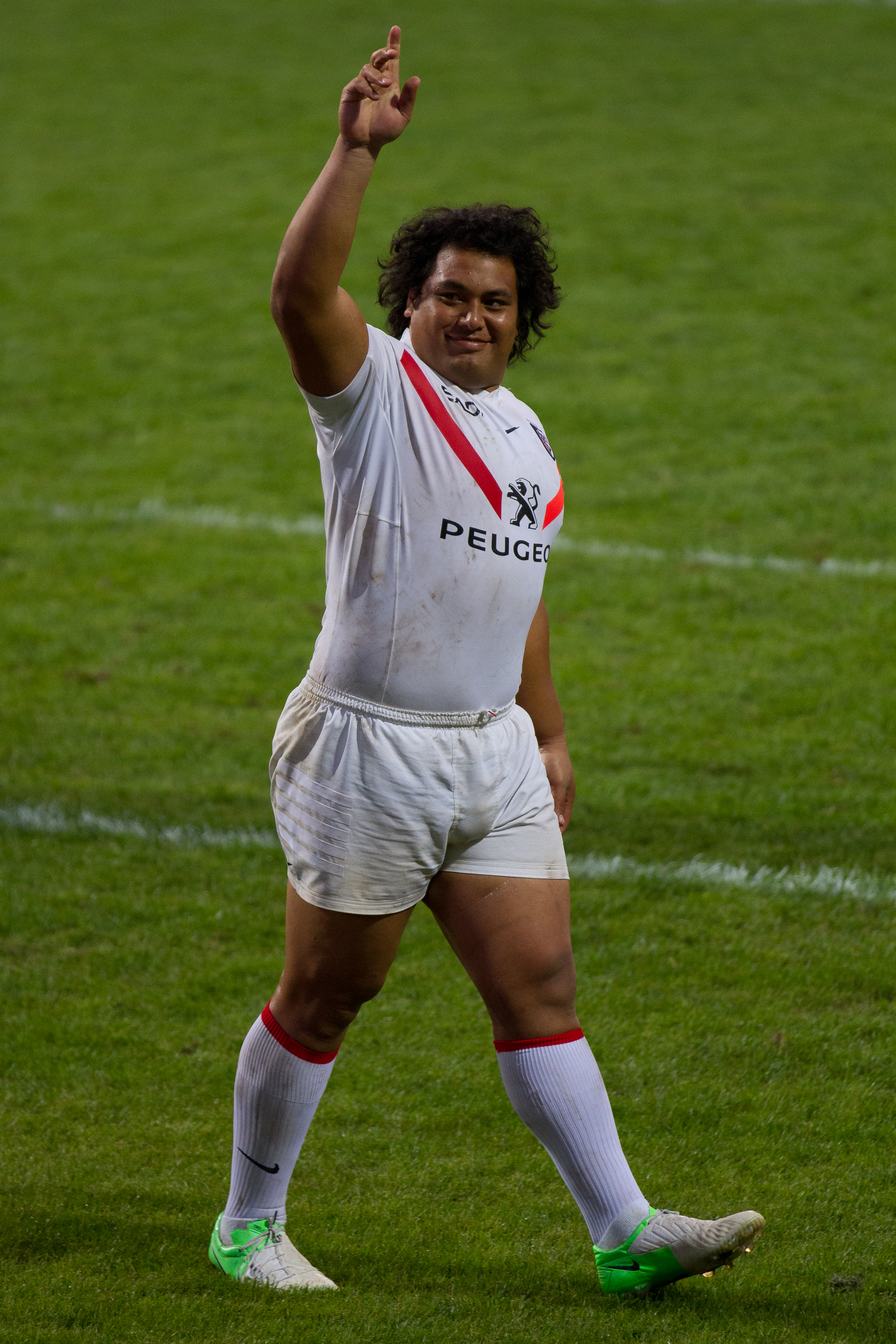 Top 14 — 8 September 2012, Stade Ernest-Wallon. Match between: Stade toulousain — SU Agen